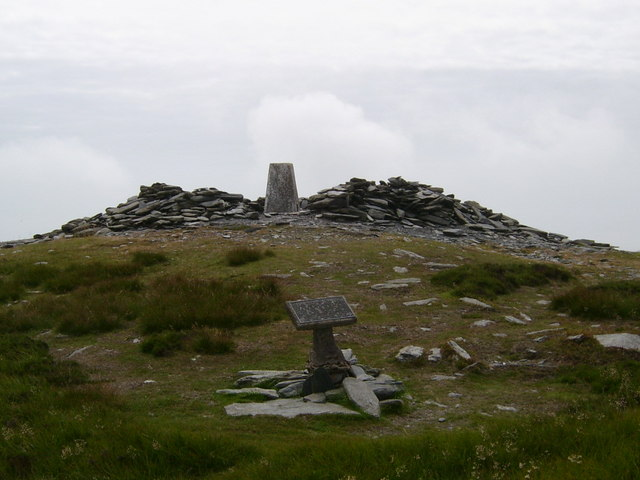 South Barrule Summit